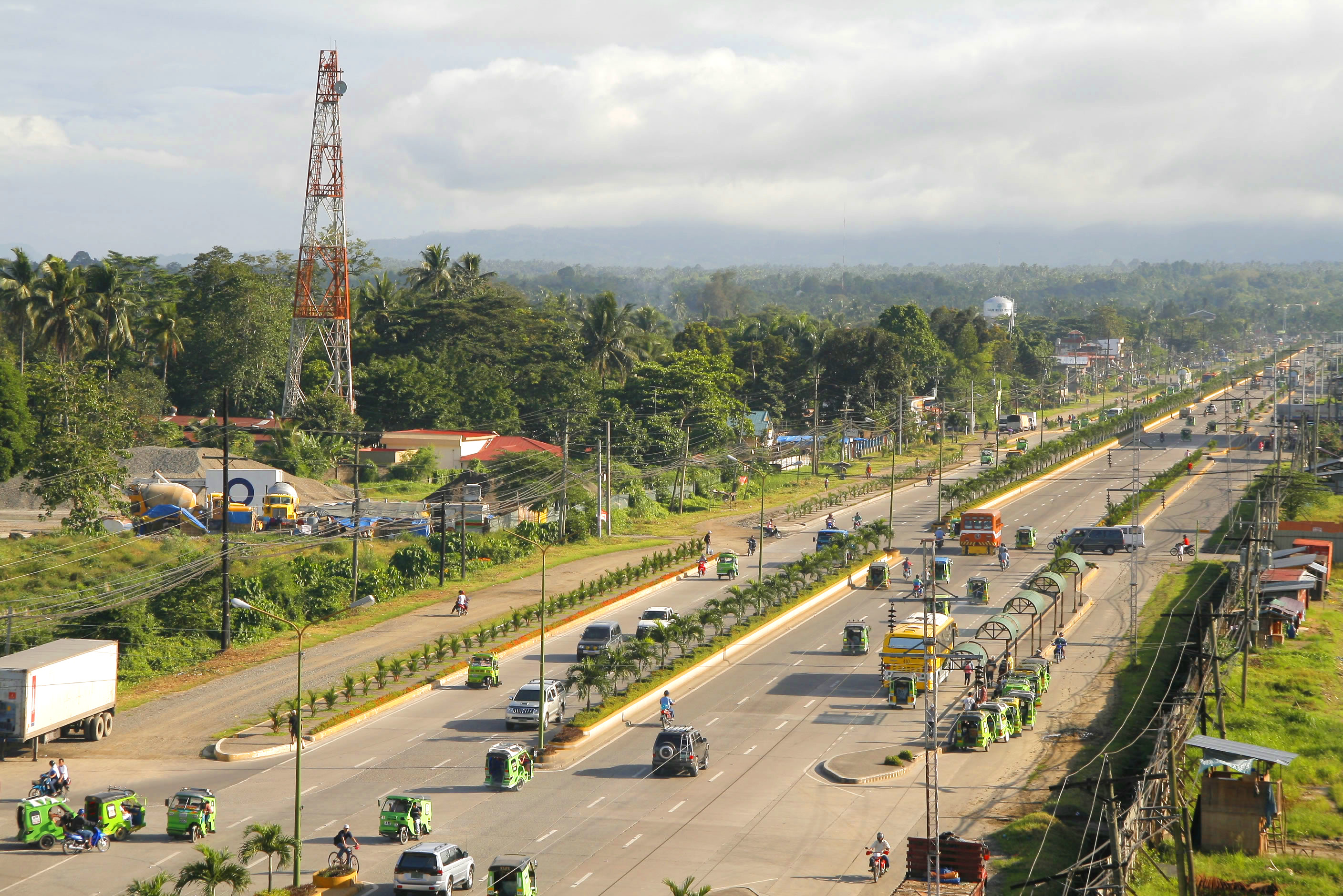 Tagum City National Highway to NCCC Mall and Compostela Valley.